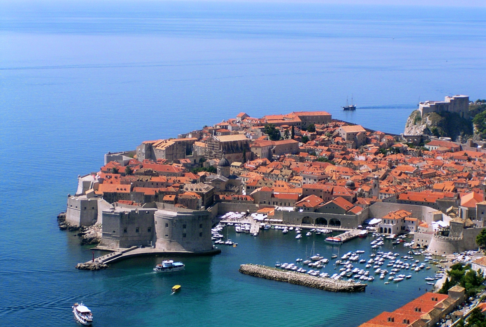 Captured in 2004. In the front you can see the harbour of dubrovnik with the old town behind. At the left you see a part of the battlement around the old town.